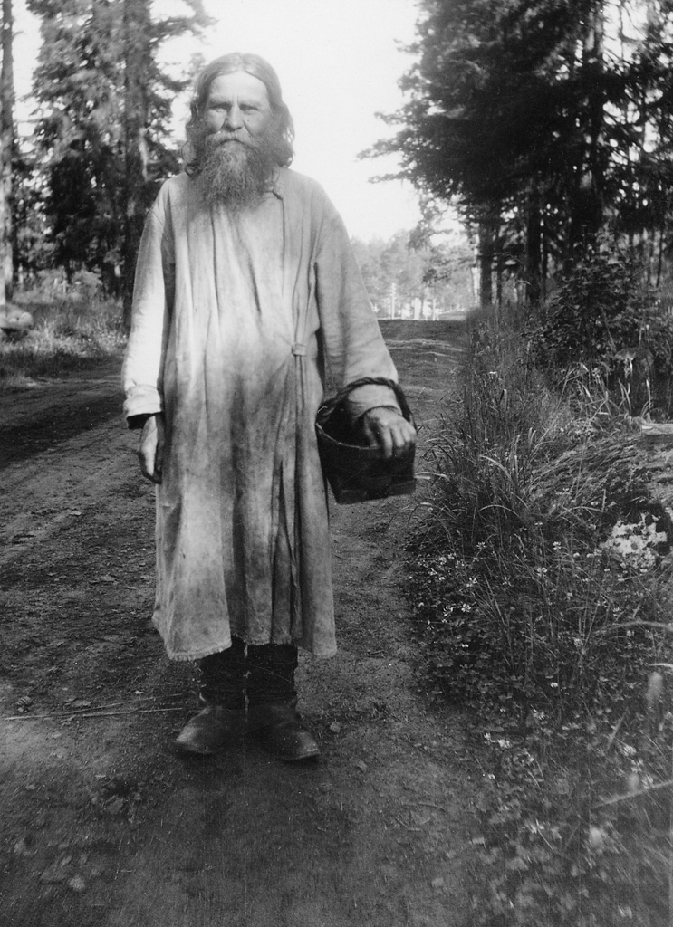 Russian Orthodox monk with a birchbark basket. Rysk-ortodox munk med en näverkorg. Location: Valaam monastery, Valamo, Karelia, Russia (then Finland) Photograph by: Einar Erici Date: 1930s Format: Print Persistent URL: Read more about the photo database (in english)